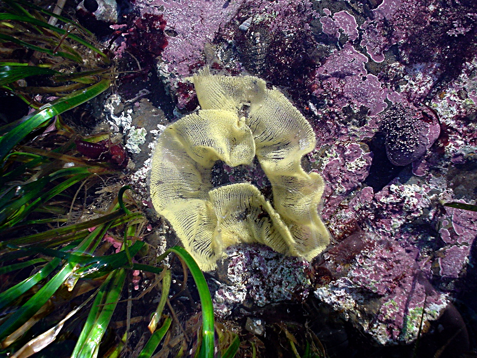 The eggs of a nudibranch. The picture was taken in Moss Beach, California